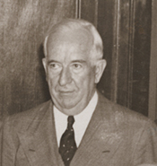 John J. Dempsey, New Mexico politician